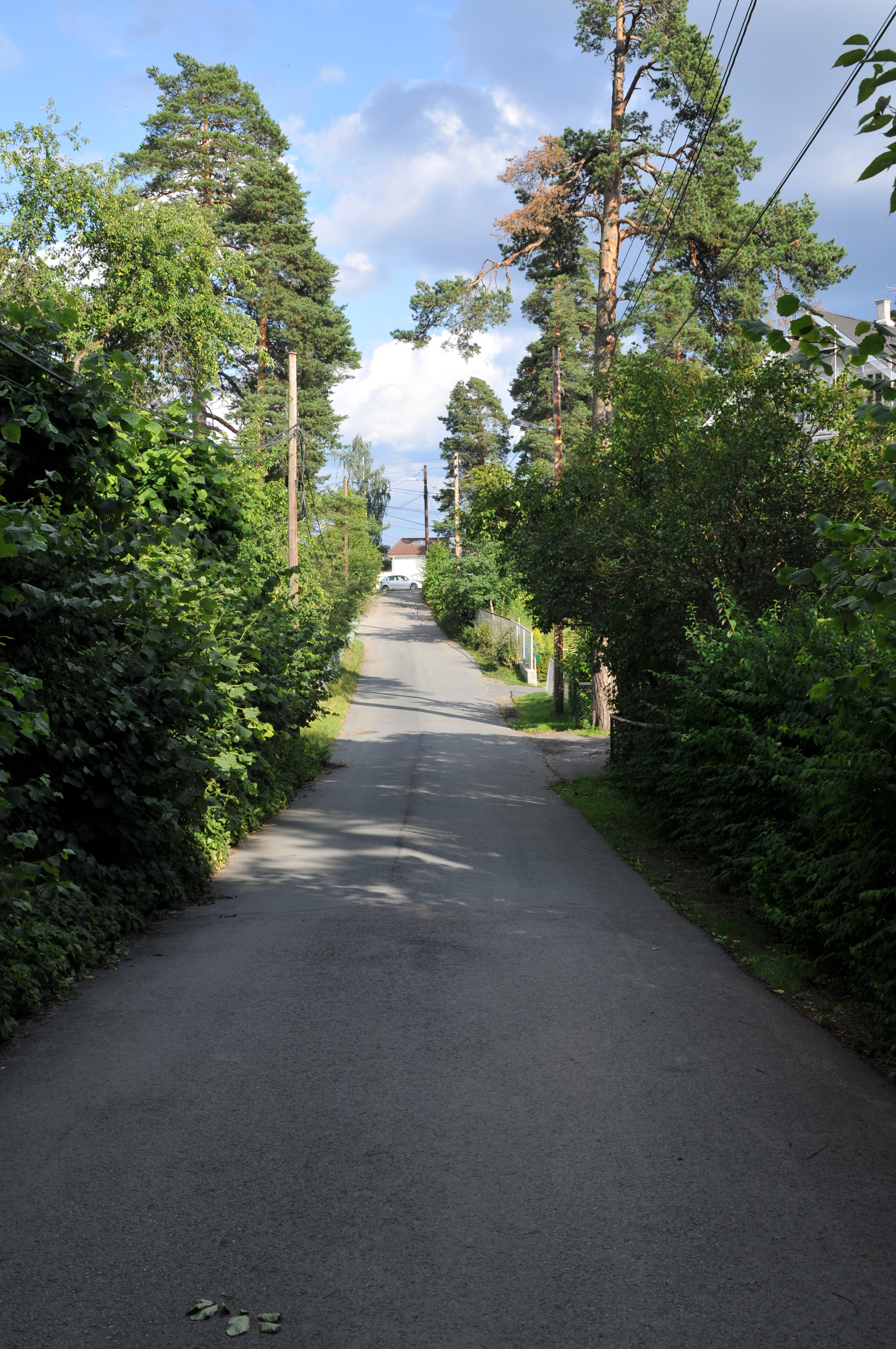 Bestum tverrvei towards Nedre Skogvei